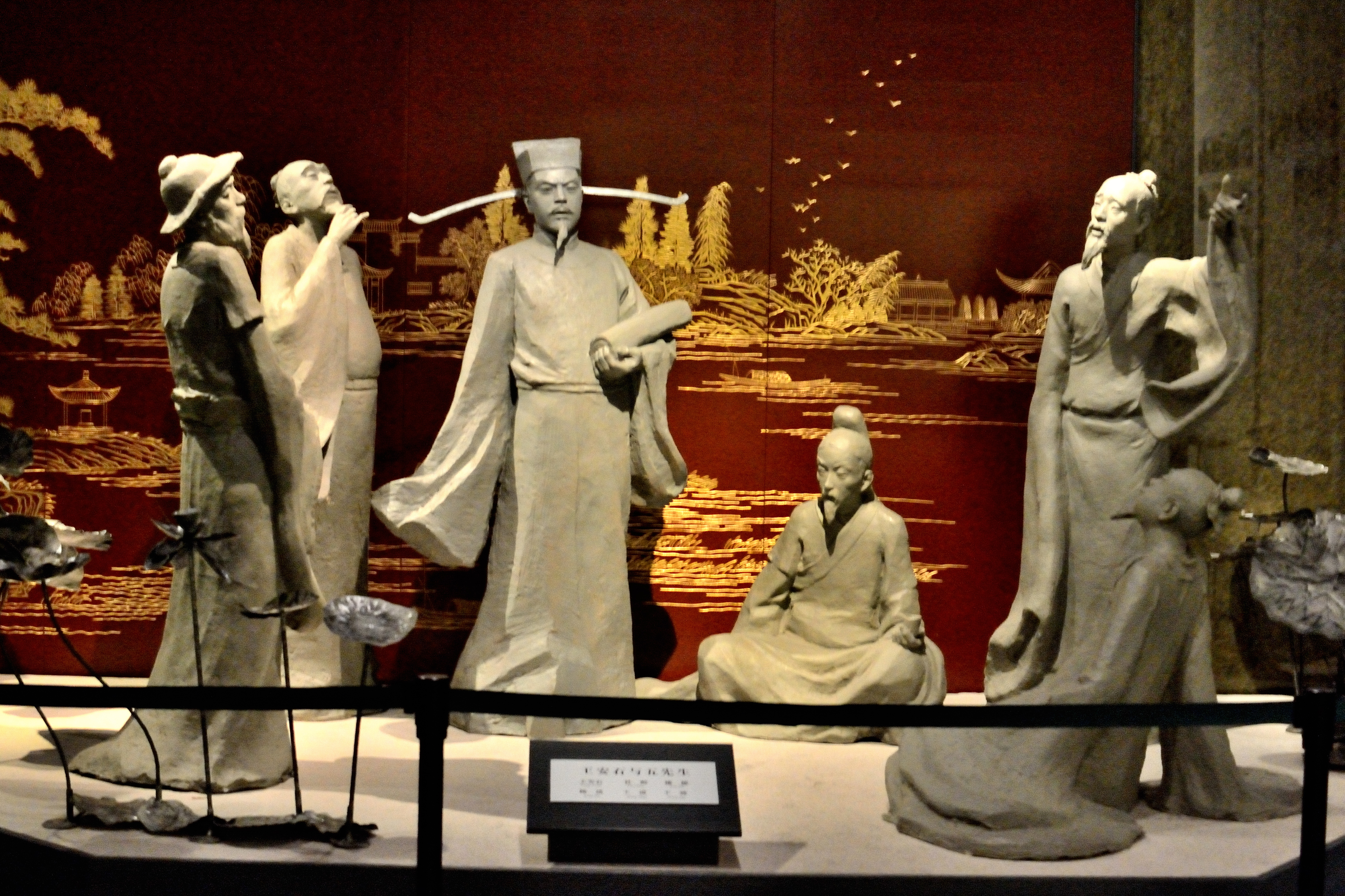 Sculpture showing Wang Anshi and five scholars in former Ying County in Song Dynasty 王安石与庆历五先生塑像，摄于宁波博物馆